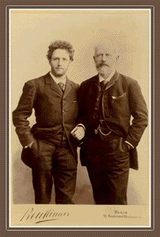 Anatoli Brandukov (L), a Russian cellist, with Pyotr Tchaikovsky.